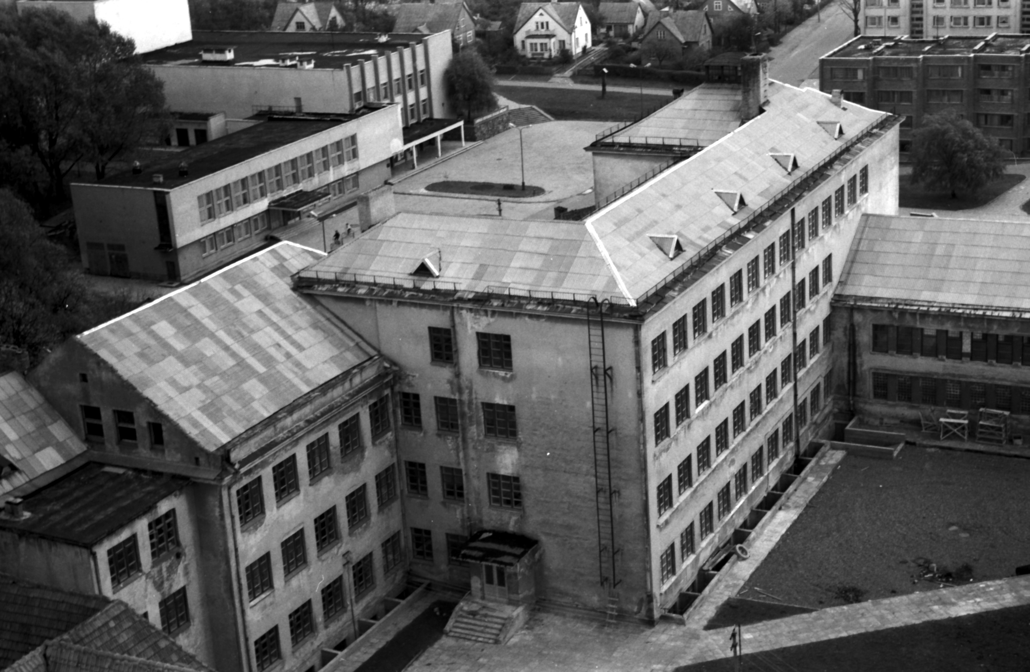 Kretinga in 1986, Lithuania